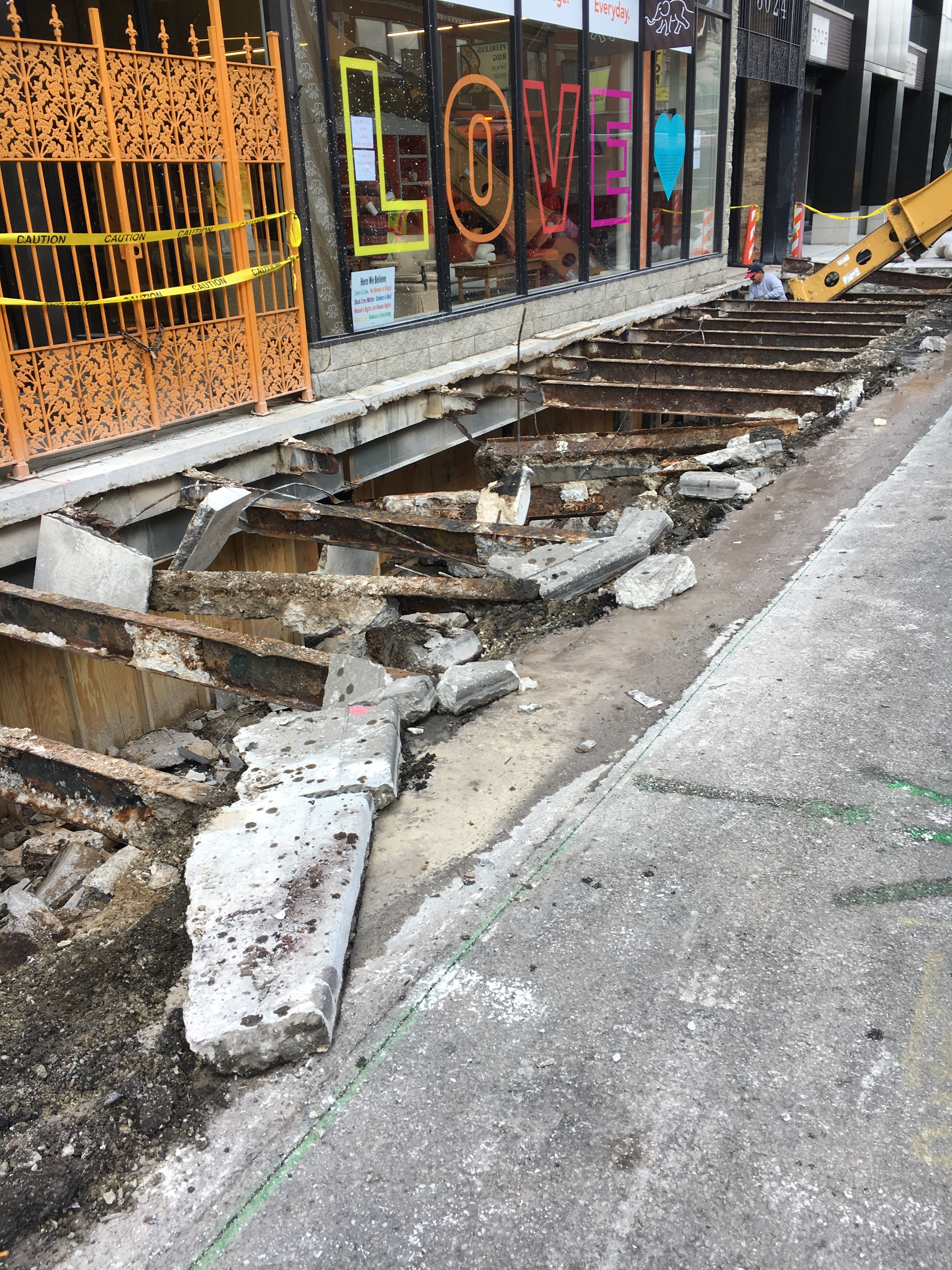 Vaulted sidewalk in front of a store in Chicago